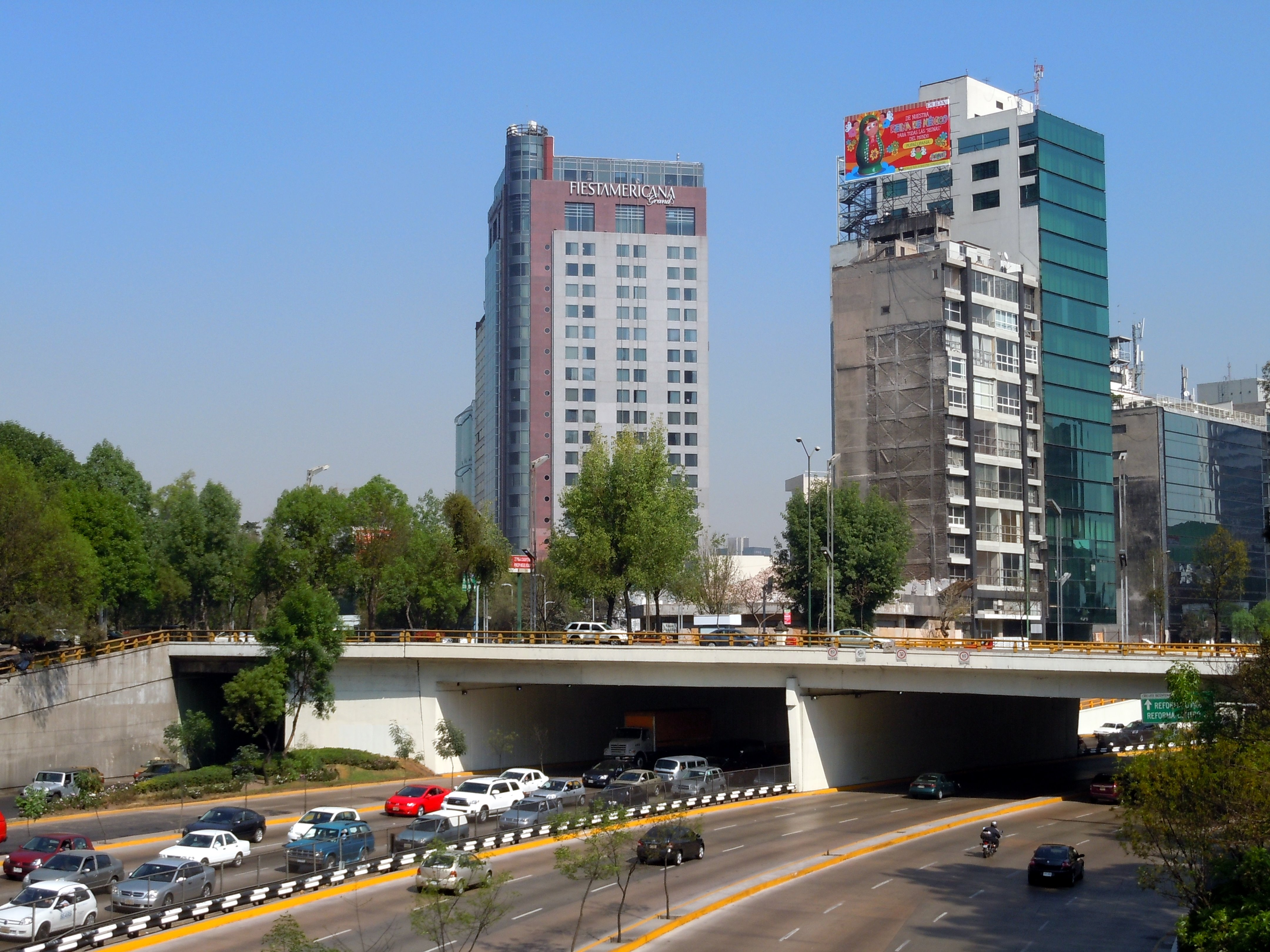 The Circuito Interior, Mexico City